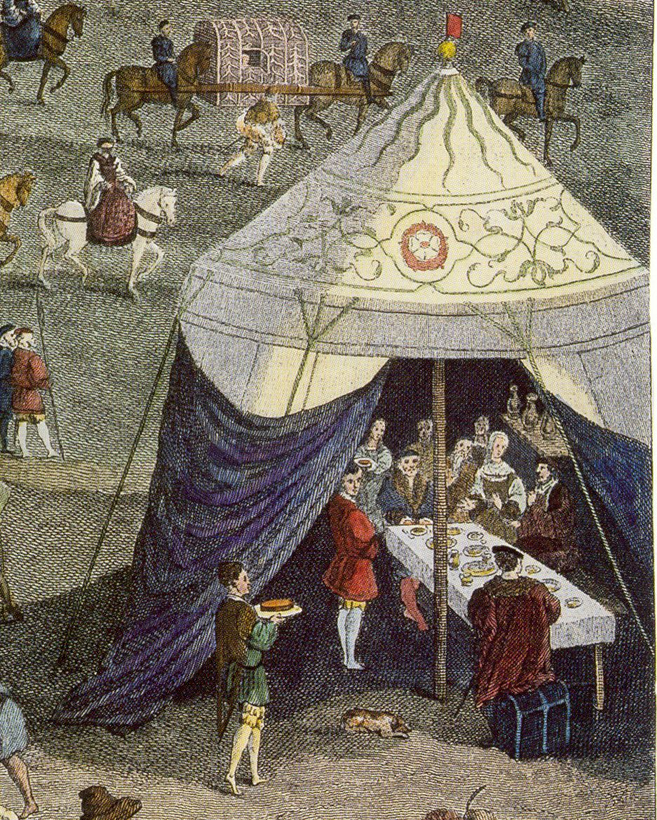 «Field of the cloth of gold». Fragment of engraving